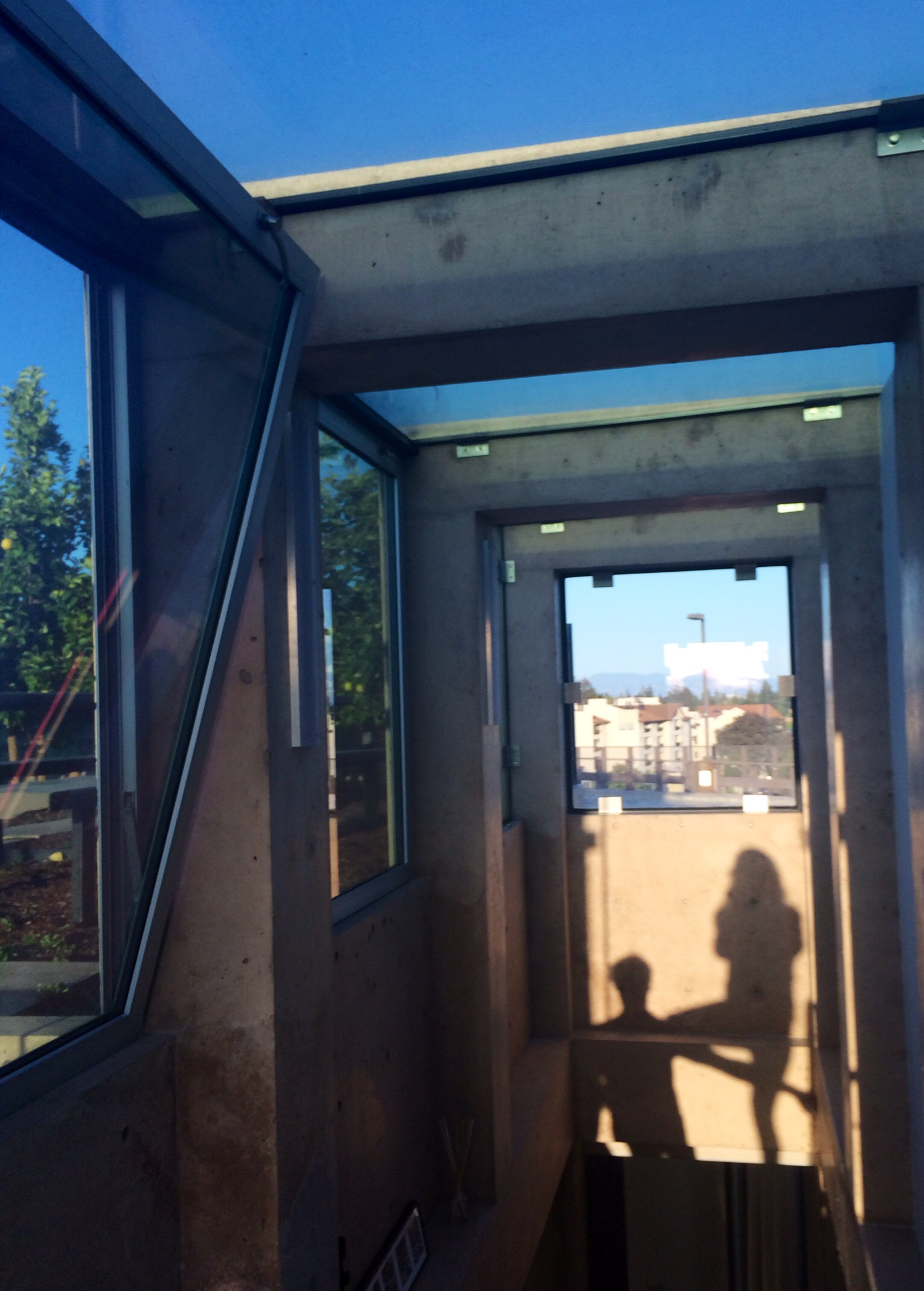 Joseph Bellomo Architects 102 University Ave. Palo Alto, CA